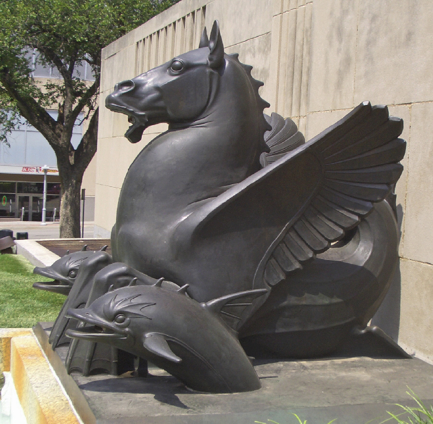 Hippocamp and dolphins fountain at City Hall, Kansas City, Missouri, 1937